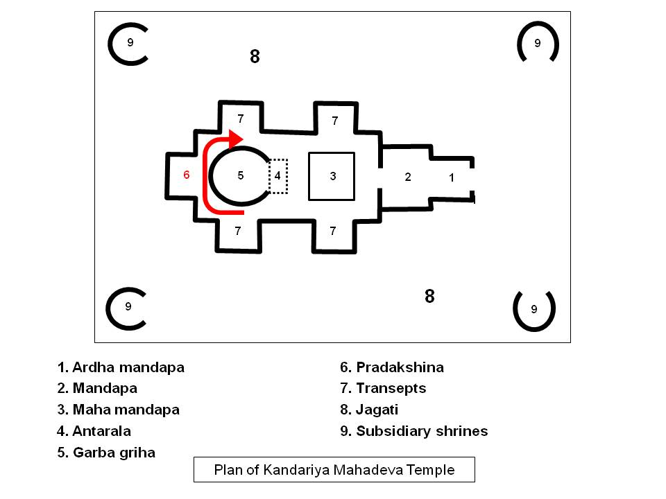 Simplified plan of the Kandiriya Mahadeva temple in Khajuraho.